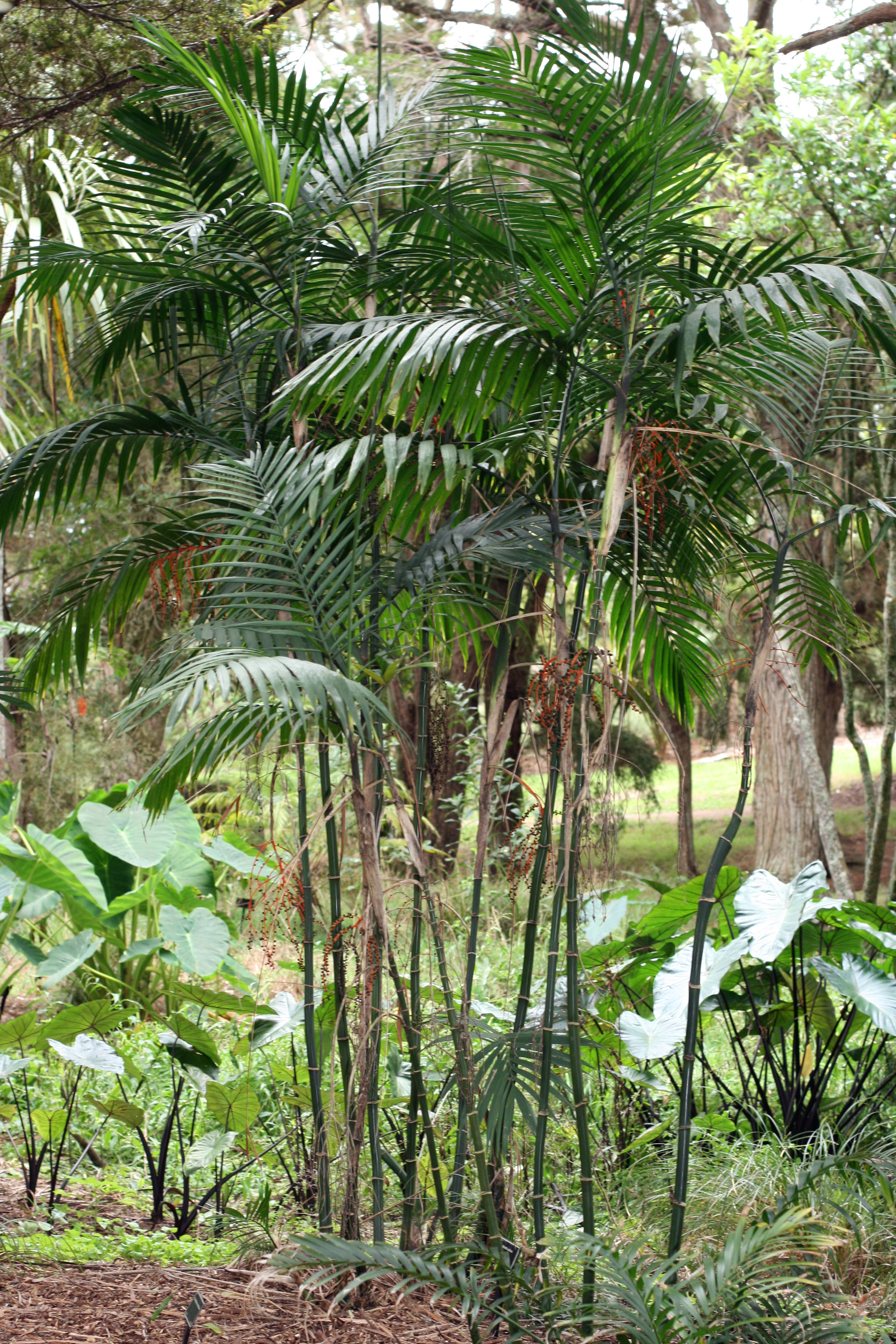 Chamaedorea costaricana, native to Costa Rica, and Panama to Honduras. Specimens growing in cultivation at Manukau City, New Zealand